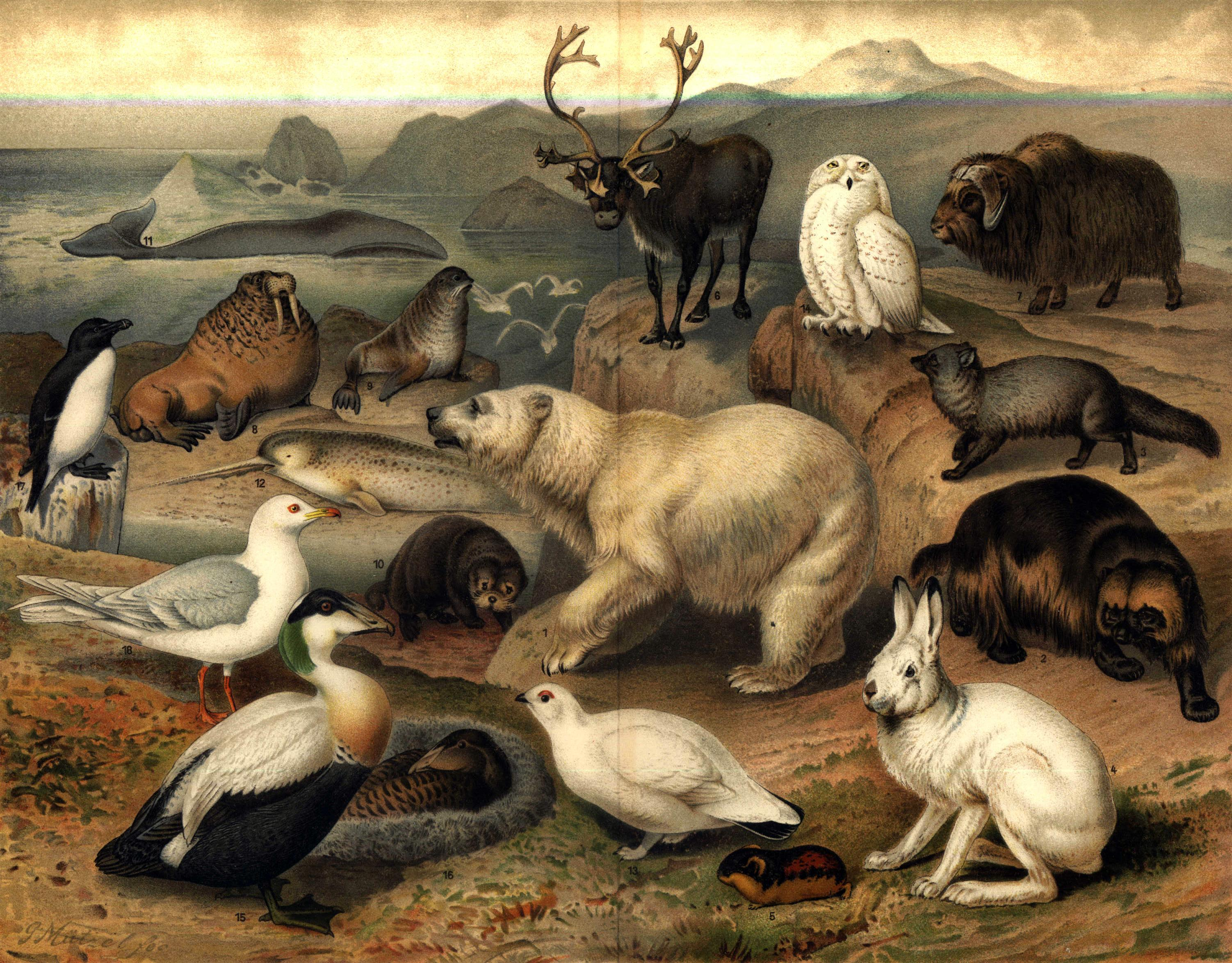 Arctic fauna